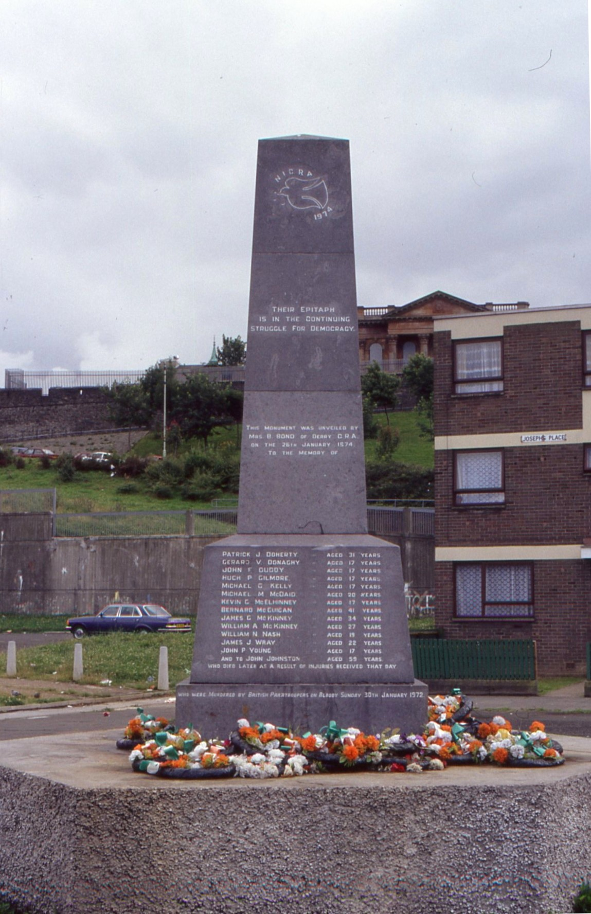 Bloody Sunday memorial in (London)Derry, (Northern)Ireland.